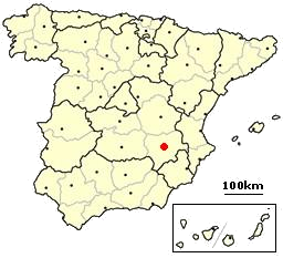 Location of Albacete in Spain.